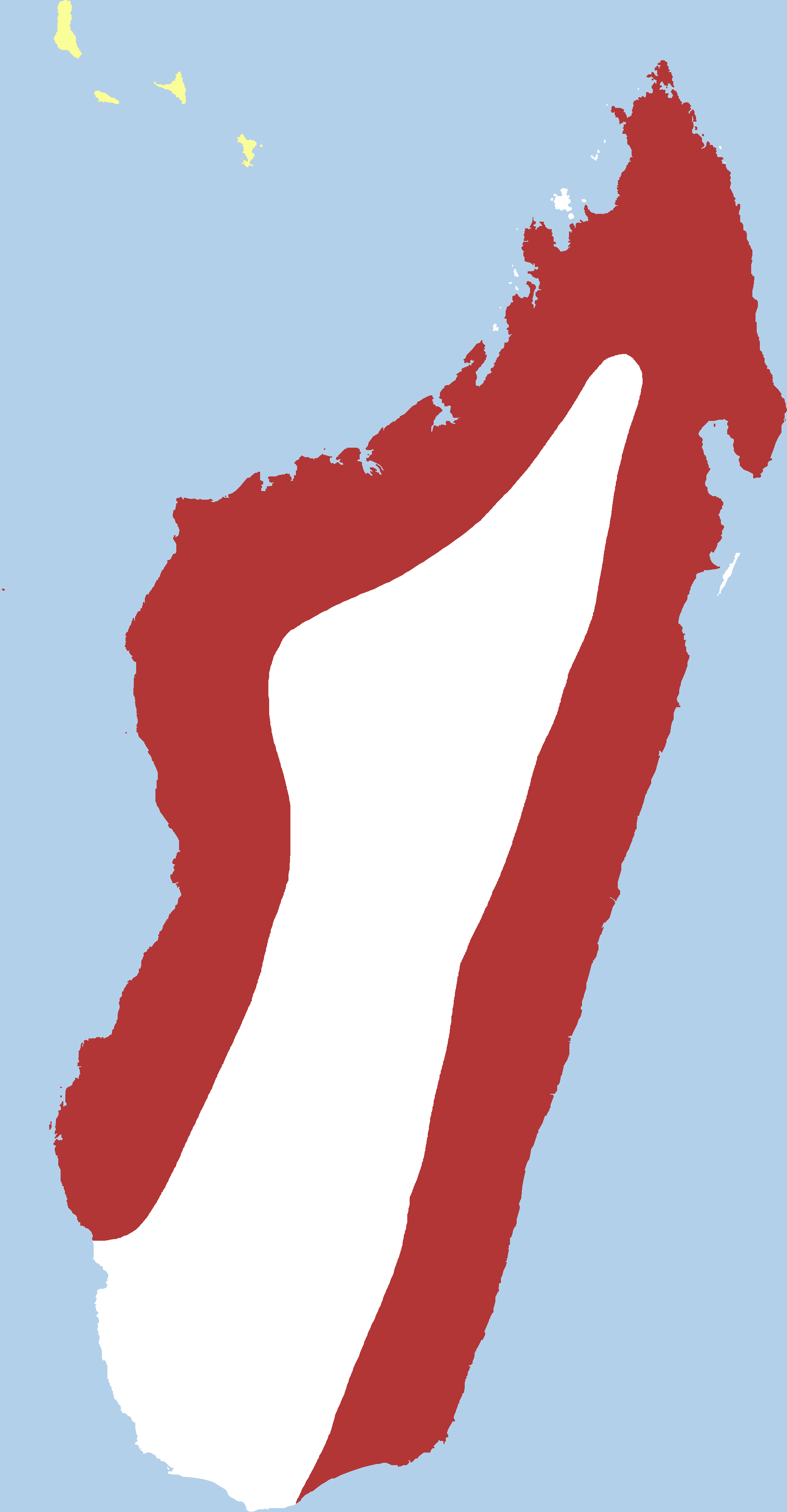 Distribution of the Madagascar Starling Hartlaubius auratus